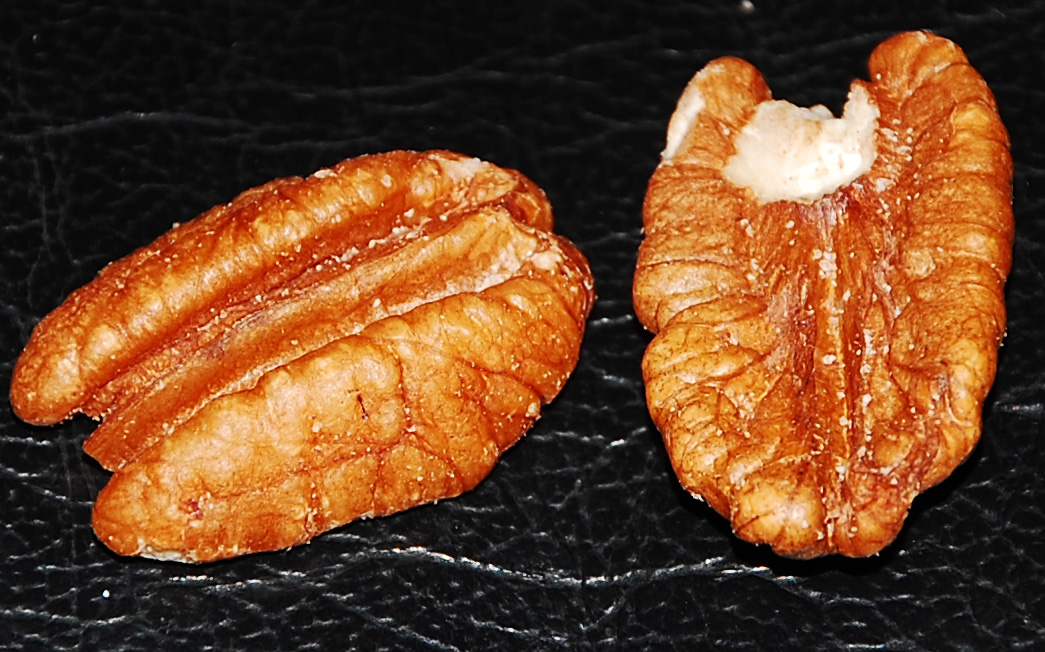 Pecan halves